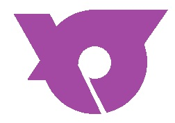 Yamabe Yamagata chapter